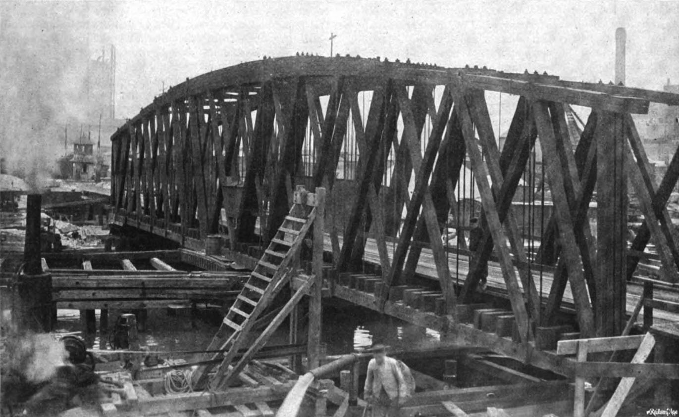 Cherry Avenue Railway bridge, Chicago. Caption in Railway Age reads 'Chicago Milwaukee & St. Paul Bridge—Old Structure to be Replaced'